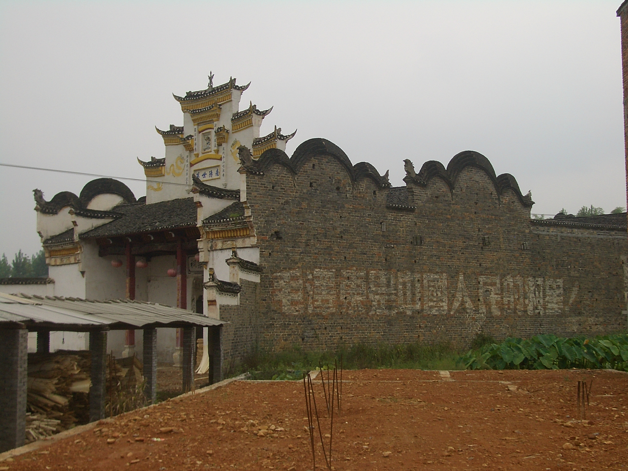 A temple (signed 南阳世第, "Nanyang Shidi") in a village in Yangxin county, a few km to the north of the G316/G106, on the way to Longgang Zhen junction. The temple is being renovated currently; the facade looks new, while the side walls are much older. One can still see the slogan, "毛泽东是中国人民的救星!" ("Mao Zedong is Chinese people's savior!"), on the temple's northern wall; written in tradtional characters, it may even pre-date the cultural revolution.